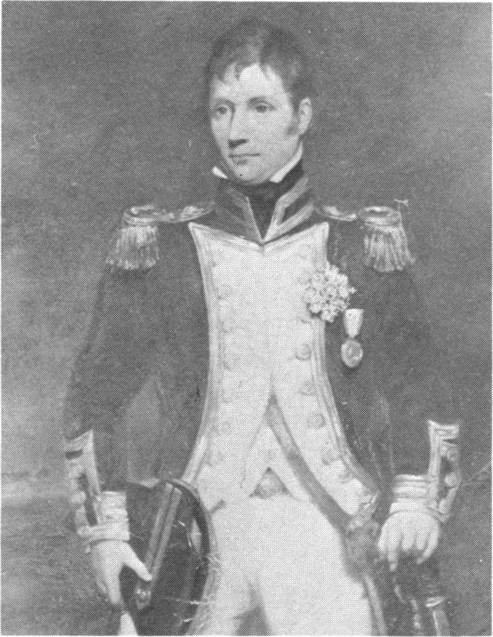 Sir Eliab Harvey, attributed to Lemuel Francis Abbott. This painting is attributed to Abbot who died in 1802, therefore the picture has had decorations added to it since, as Harvey is seen here wearing his Captain's Trafalgar gold medal, Star of Order of Bath, and red sash of Order of Bath.[1]